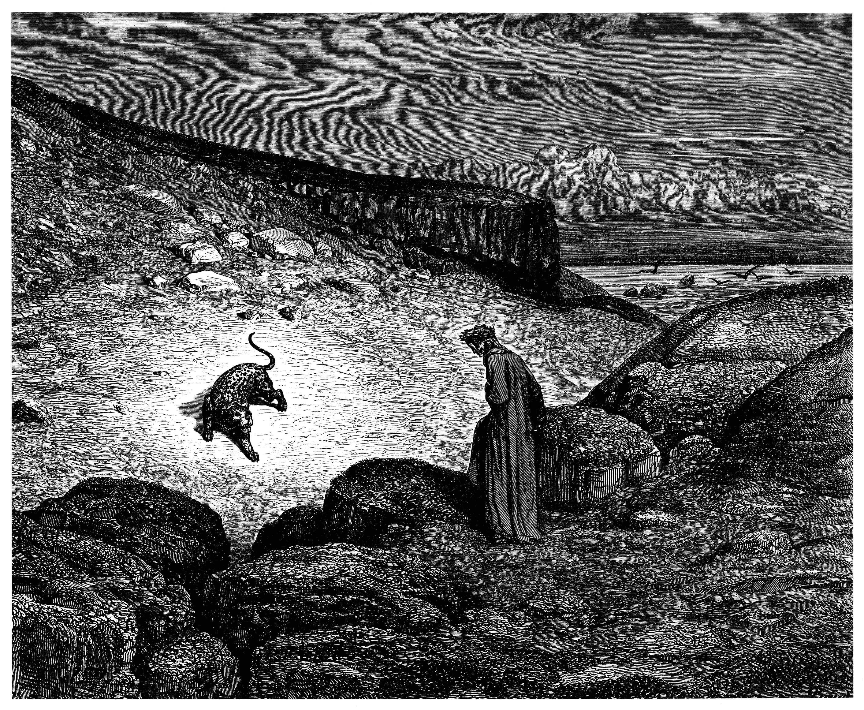 Gustave Doré's illustration to Dante's Inferno. Plate II: Canto I, "And lo! almost where the ascent began, / A panther light and swift exceedingly, / Which with a spotted skin was covered over" (Longfellow's translation)